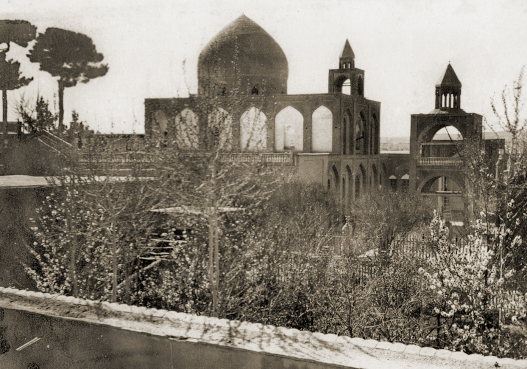 Isfahan (Iran): Vank Cathedral at New Julfa in the 1930's